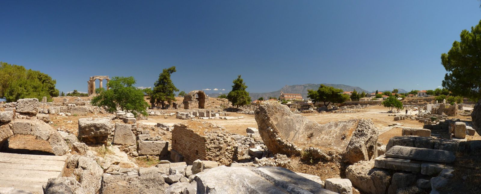 Ancient Corinth